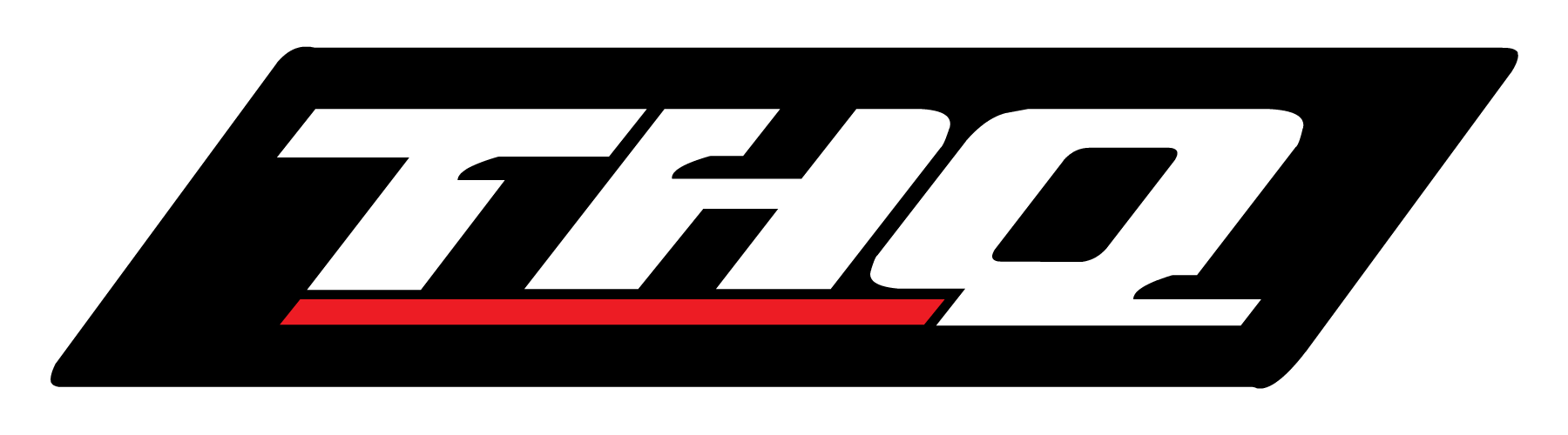 THQ logo used from 2000-2010.